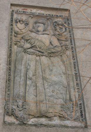 Relief from Agnes Sophie von Brose (b. ca. 1593; d. ca. 1621, wife of advowson patron) in the Church in Berge in Brandenburg, Germany